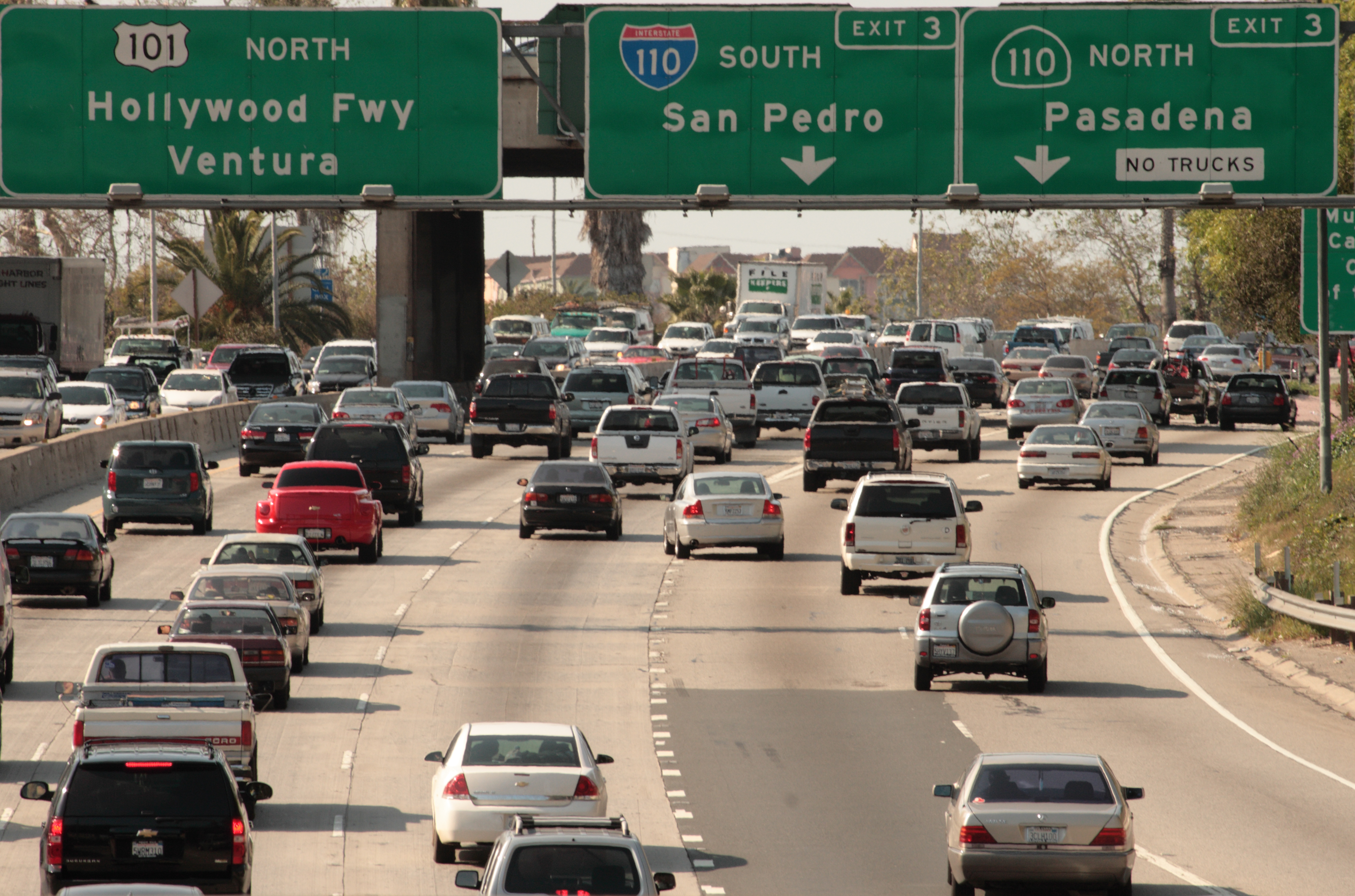 Freeway, Los Angeles, 2009